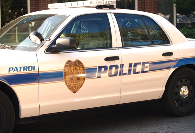 Tallahassee Police Patrol Car in 2001